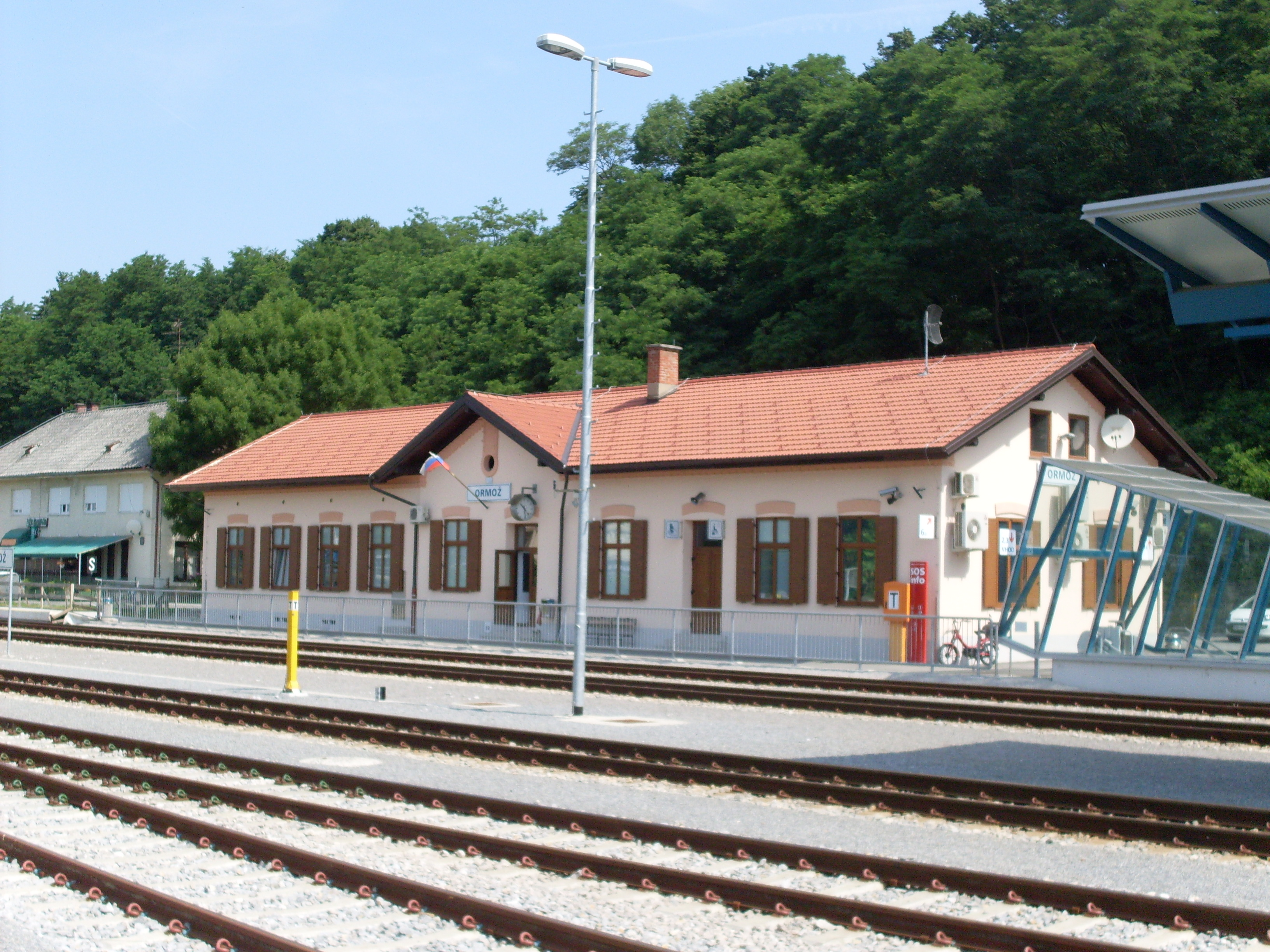 Train station in Ormož, Slovenia